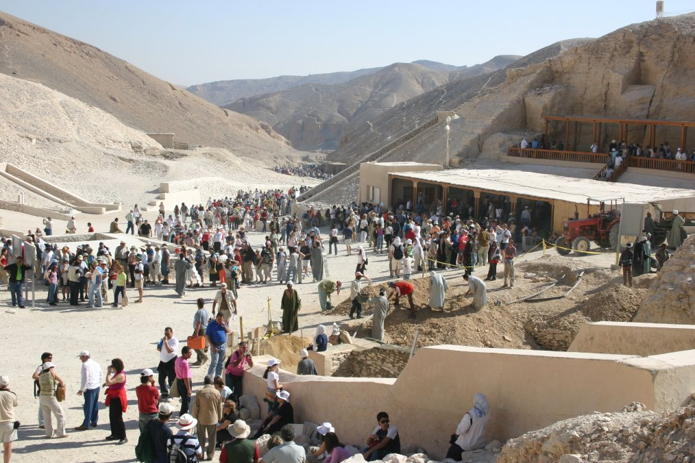 Valley of the Kings March 2005, showing location of KV63 before excavation